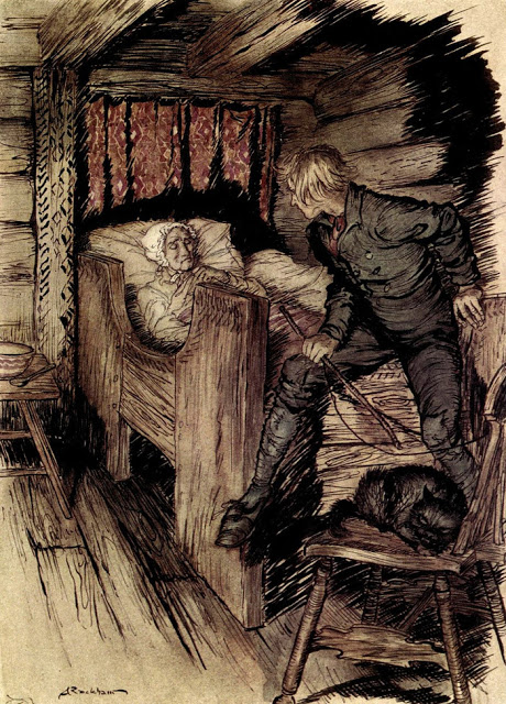 From a 1936 edition of the play Peer Gynt by Henrik Ibsen, illustrated by Arthur Rackham.